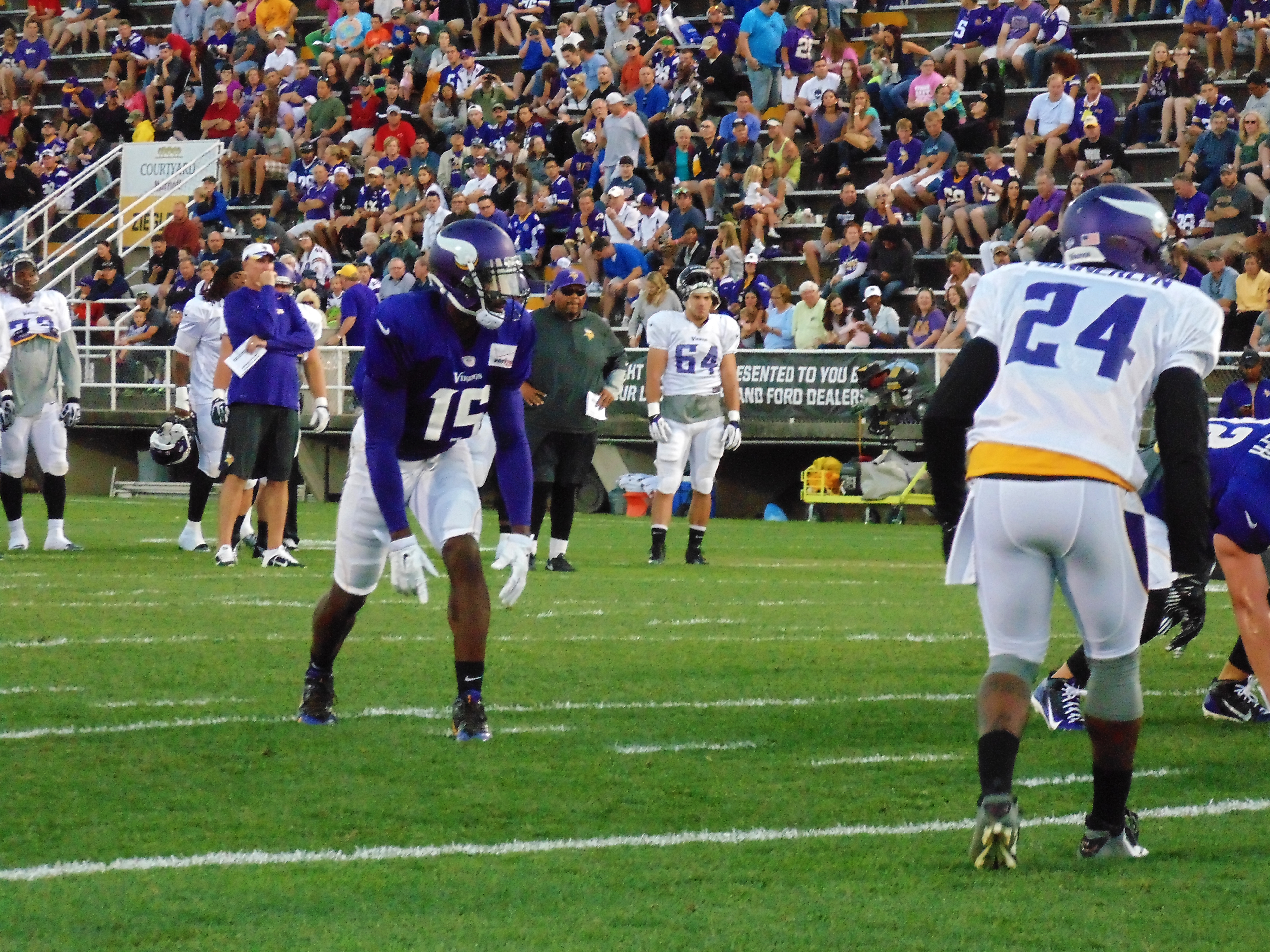 Minnesota Vikings wide receiver Greg Jennings and cornerback Captain Munnerlyn during 2014 training camp.